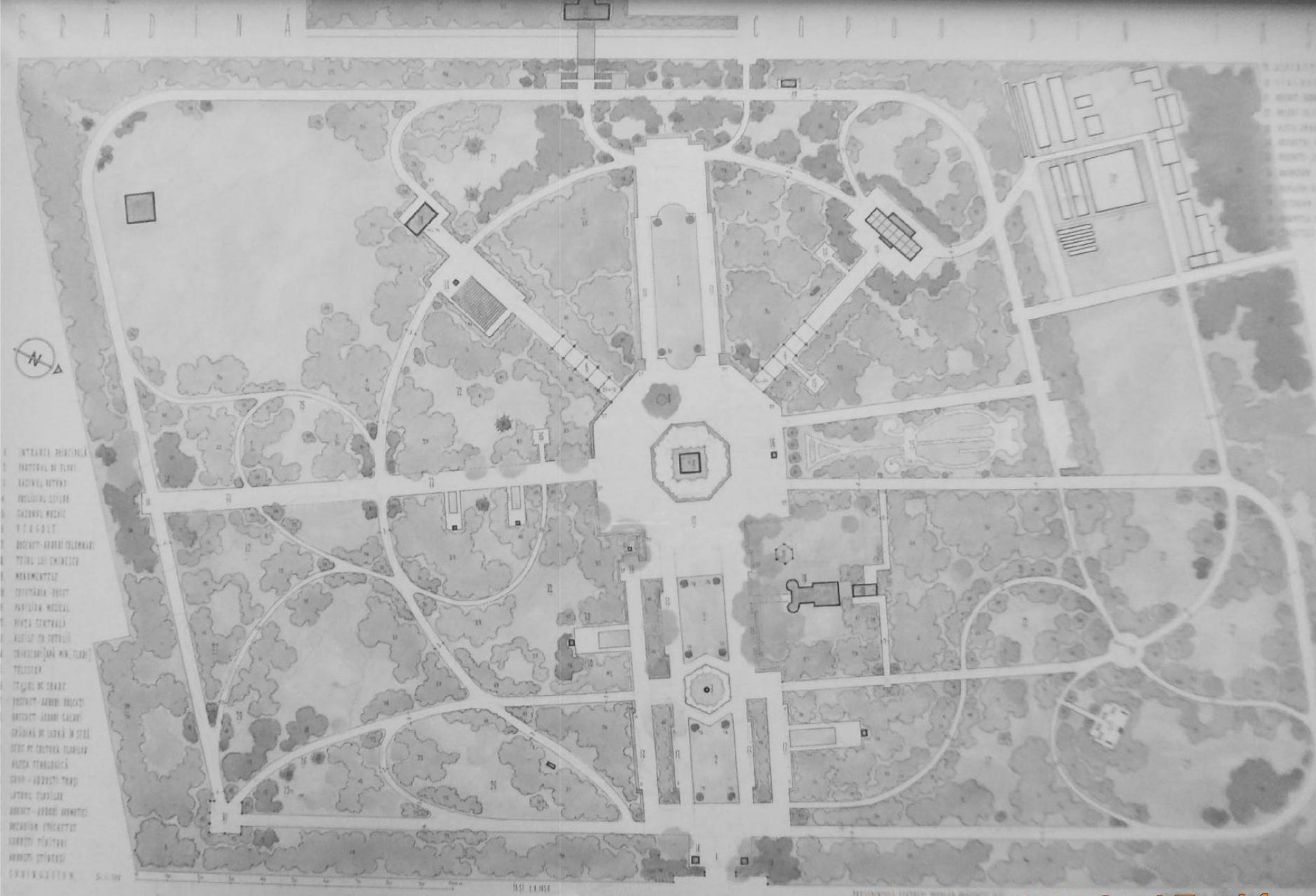 Copou Park (archival salvage)